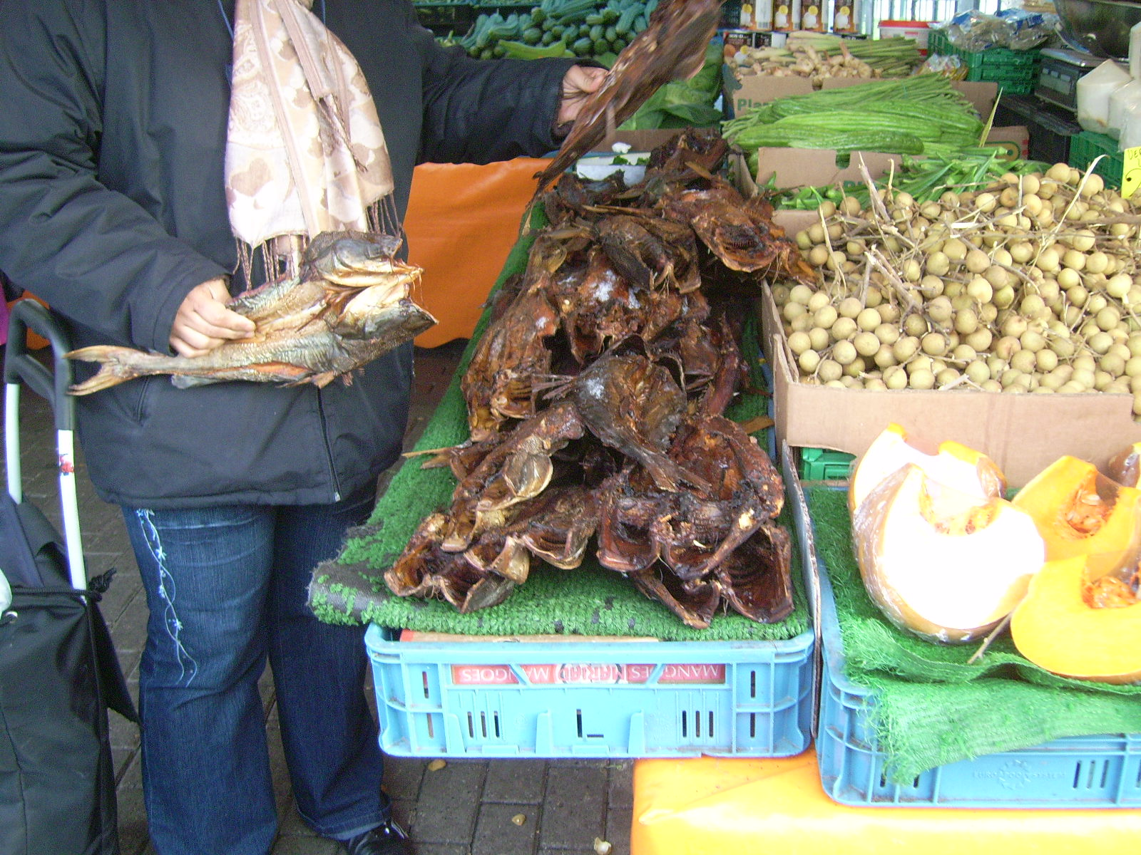 Market stand on the Haagse Markt, The Hague, Netherlands.